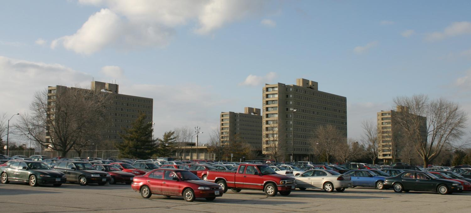 Towers Residence Association dormitories at Iowa State University. From left to right, Wilson Residence Hall, Wallace Residence Hall, Storms Residence Hall(demolished) and Knapp Residence Hall(demolished). This picture/image was taken/created by me. See my User:Cburnett page for attribution or for other licenses.